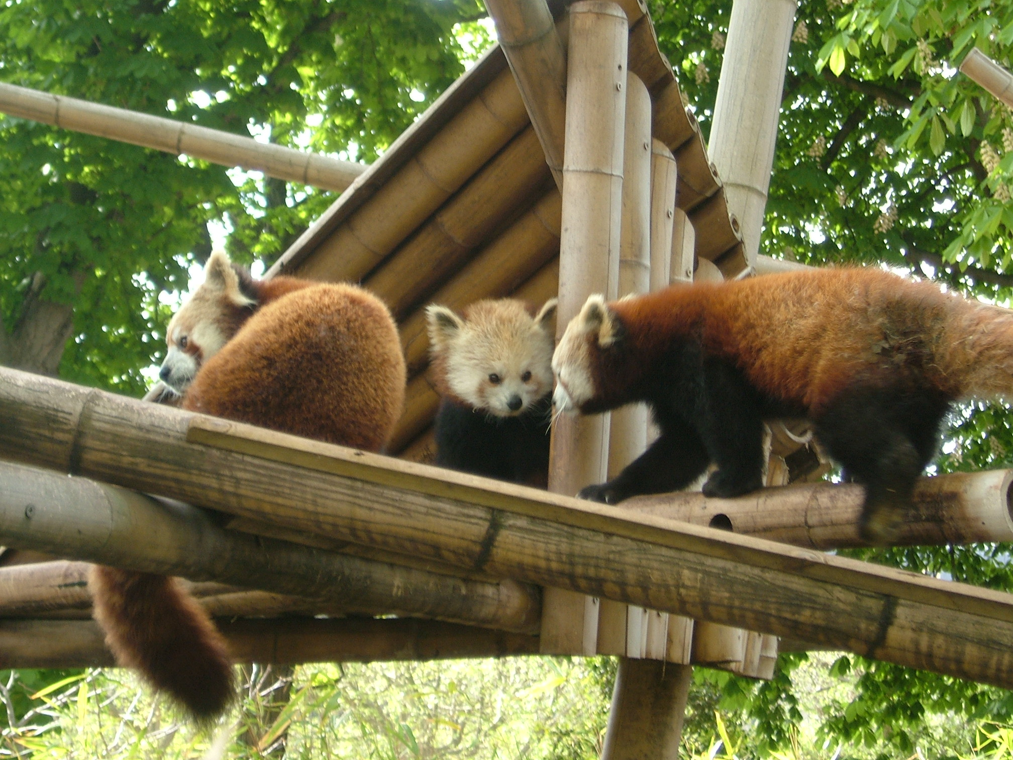 Red pandas in the Zoo of Vincennes, Paris.